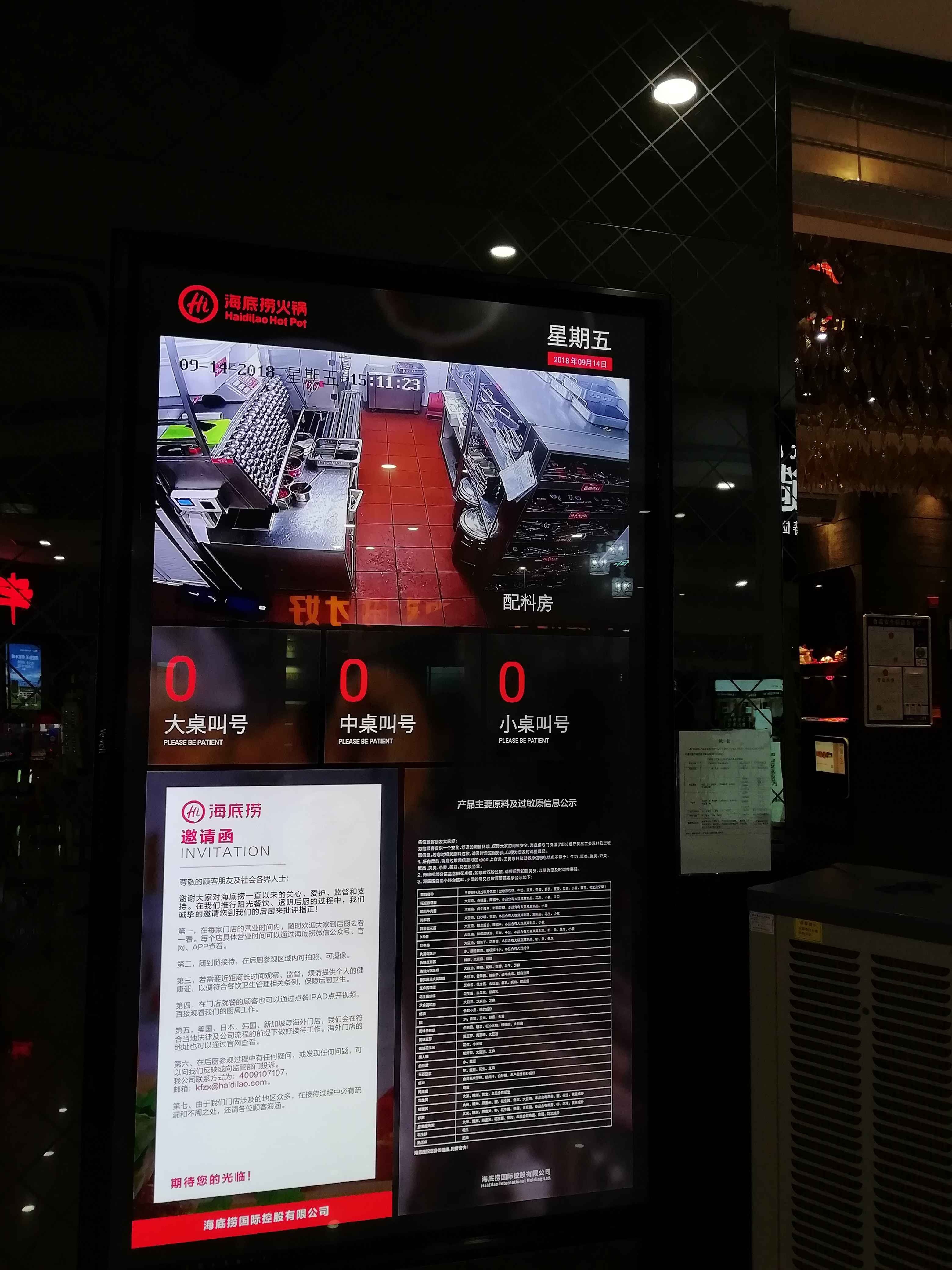 A screen of Haidilao Hot Pot, located in Suzhou. The screen plays the monitor video of kitchen to consumers. 中文（中国大陆）: 海底捞火锅苏州店的大屏幕，可以向消费者展示后厨情况以供监督。